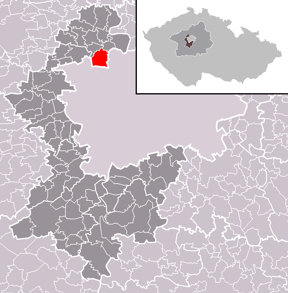 Location of Horoměřice municipality within Prague-West District and administrative area of Černošice as a Municipality with Extended Competence.